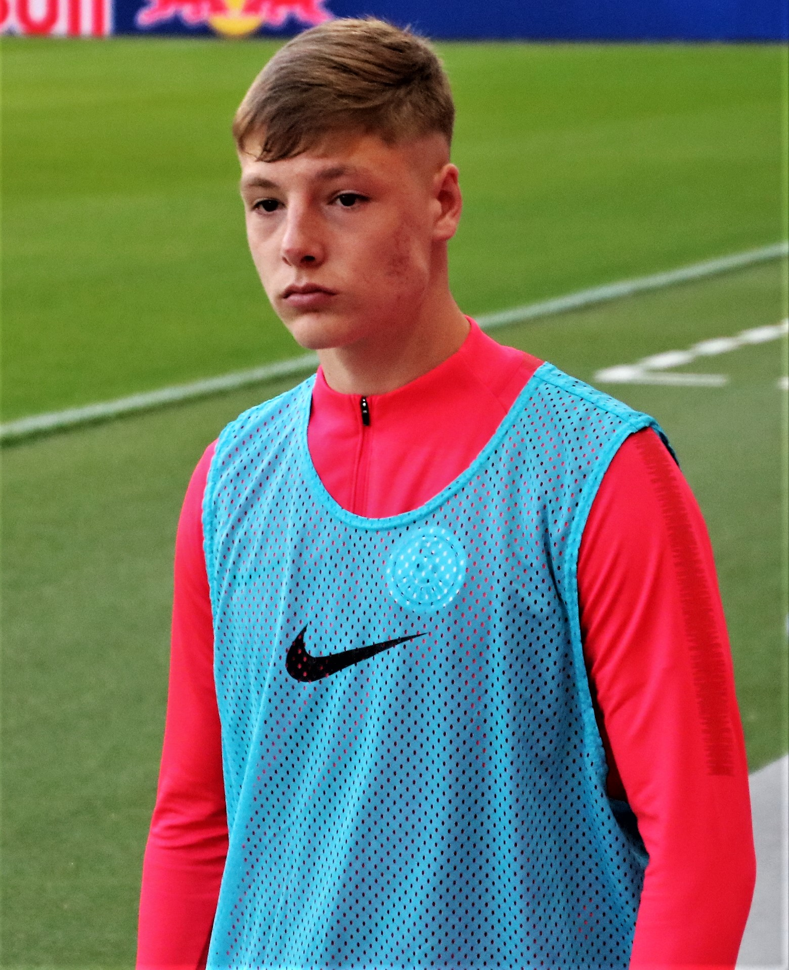 Austria 2nd league